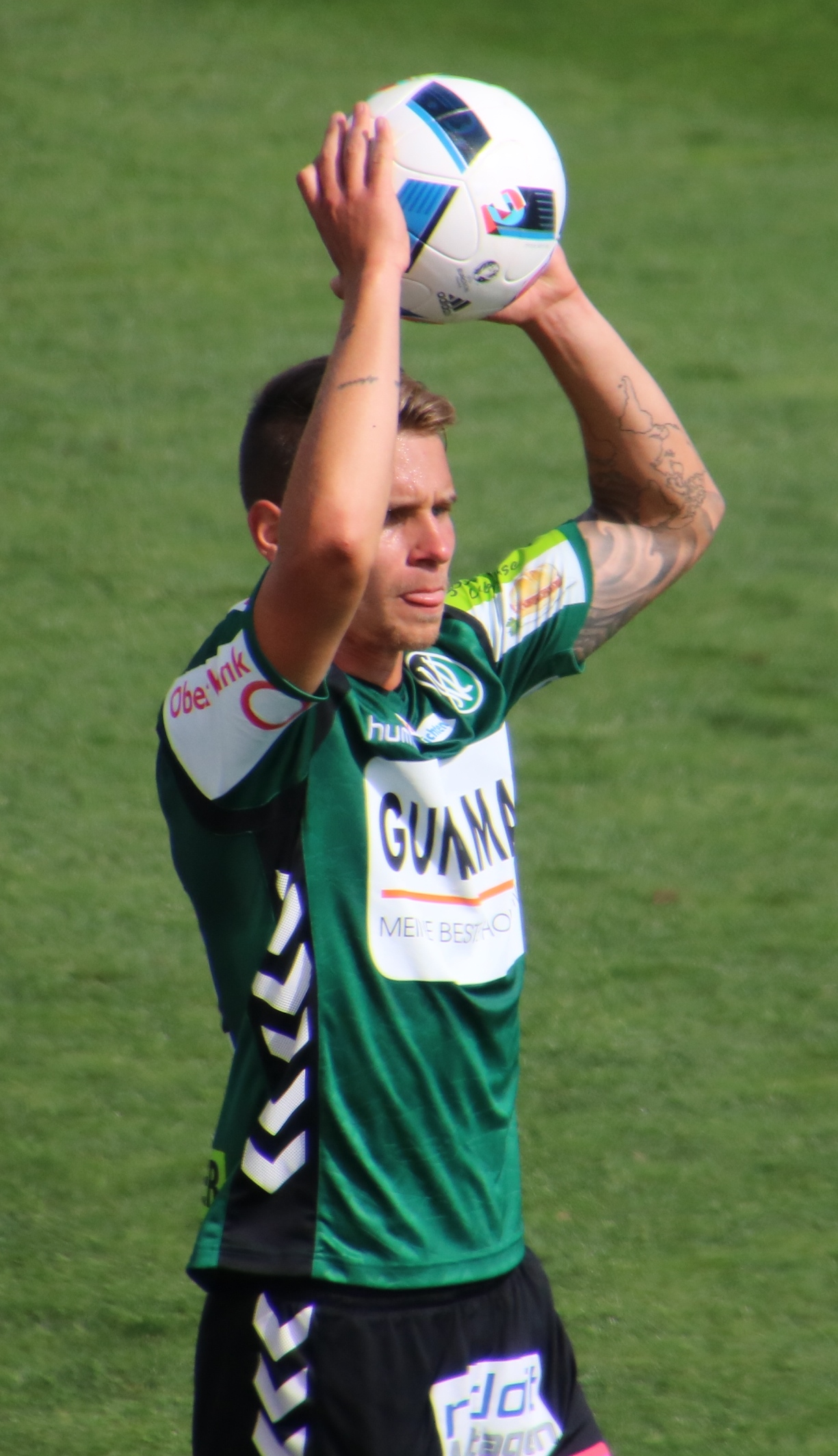 Austrian Bundesliga league match 4th round